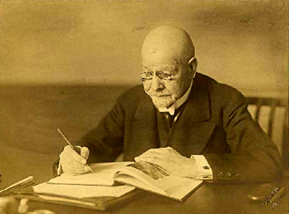 Portrait photo of Emil Rathenau, founder of AEG, seated at his desk, writing, looking down. Silver-gelatine print, original size 22.3×16.5 cm.